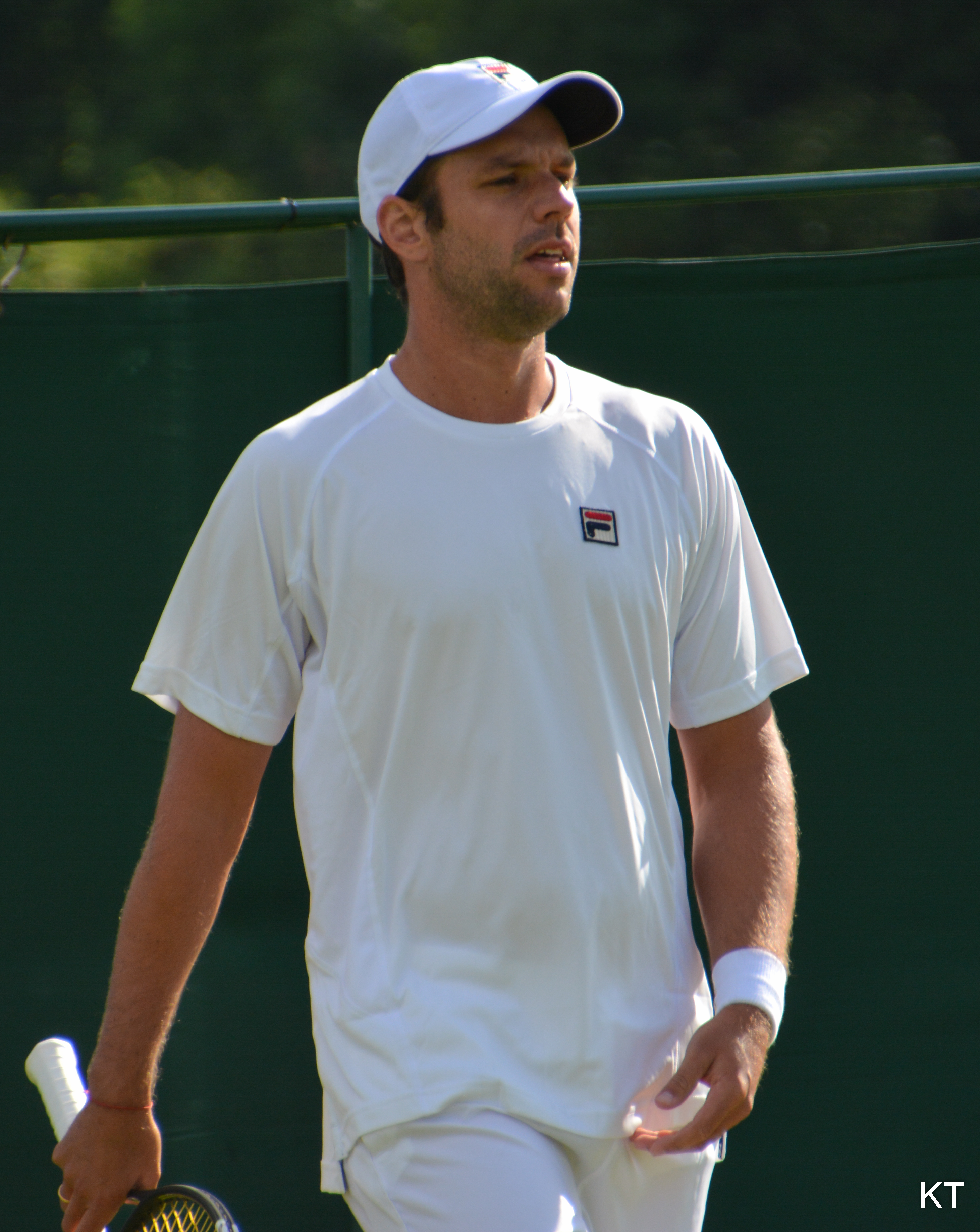 Day 1 of Wimbledon qualifying 2015.